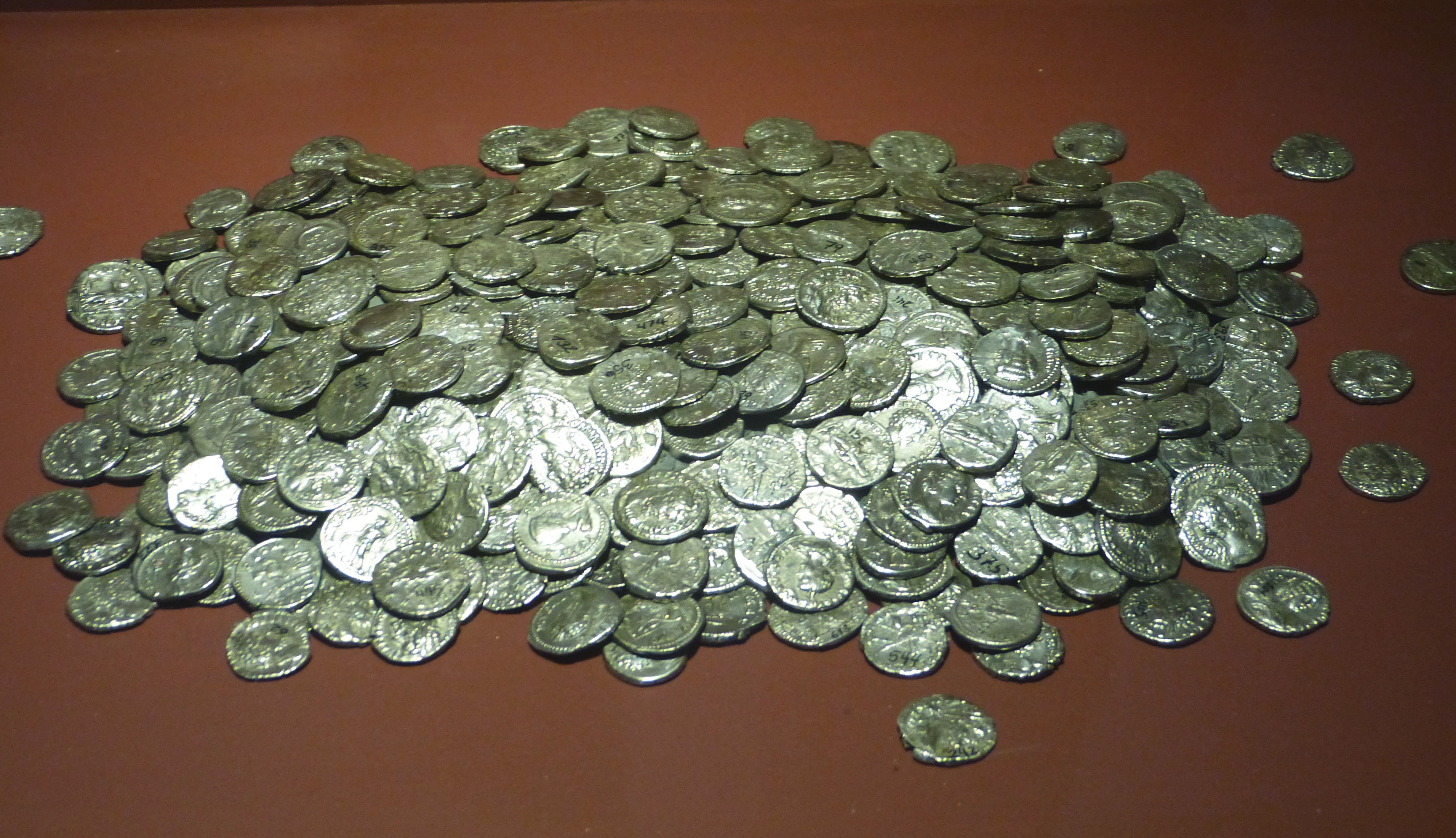 Straubing ( Lower Bavaria ). Gäubodenmuseum: Treasure of ancient Roman coins dating back to 32 BC - 232 AD. Found in Kirchmatting ( Salching / Lower Bavaria ) in 1937.